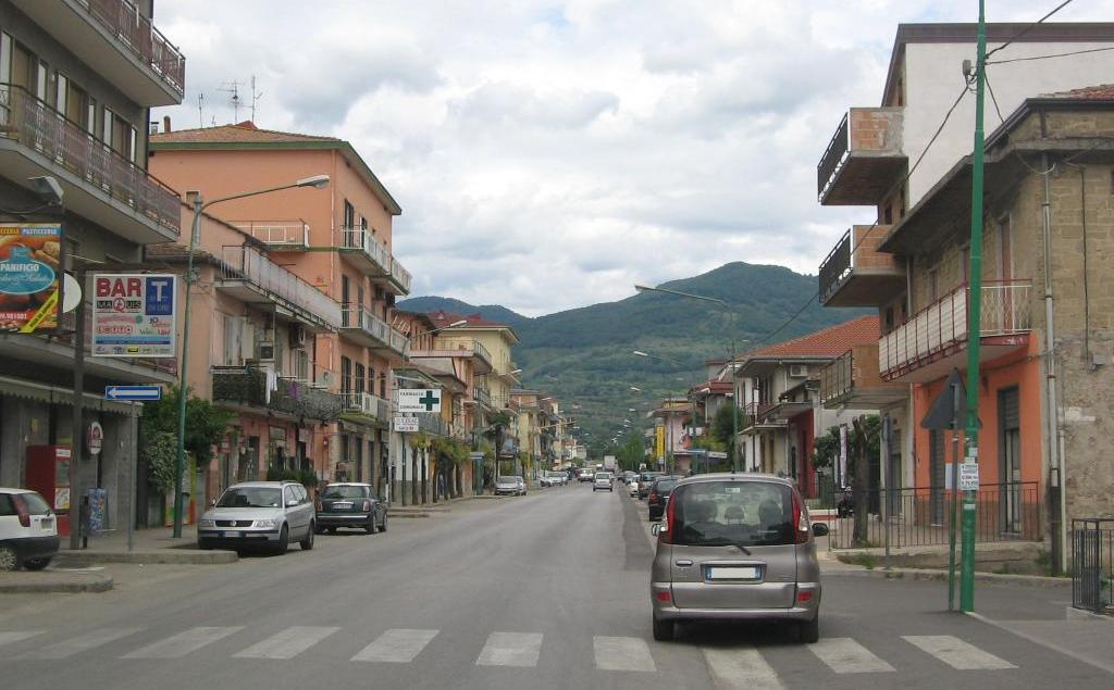 View of the central road (Via Fratelli Rosselli) of the village of Macchia, in the Province of Salerno.